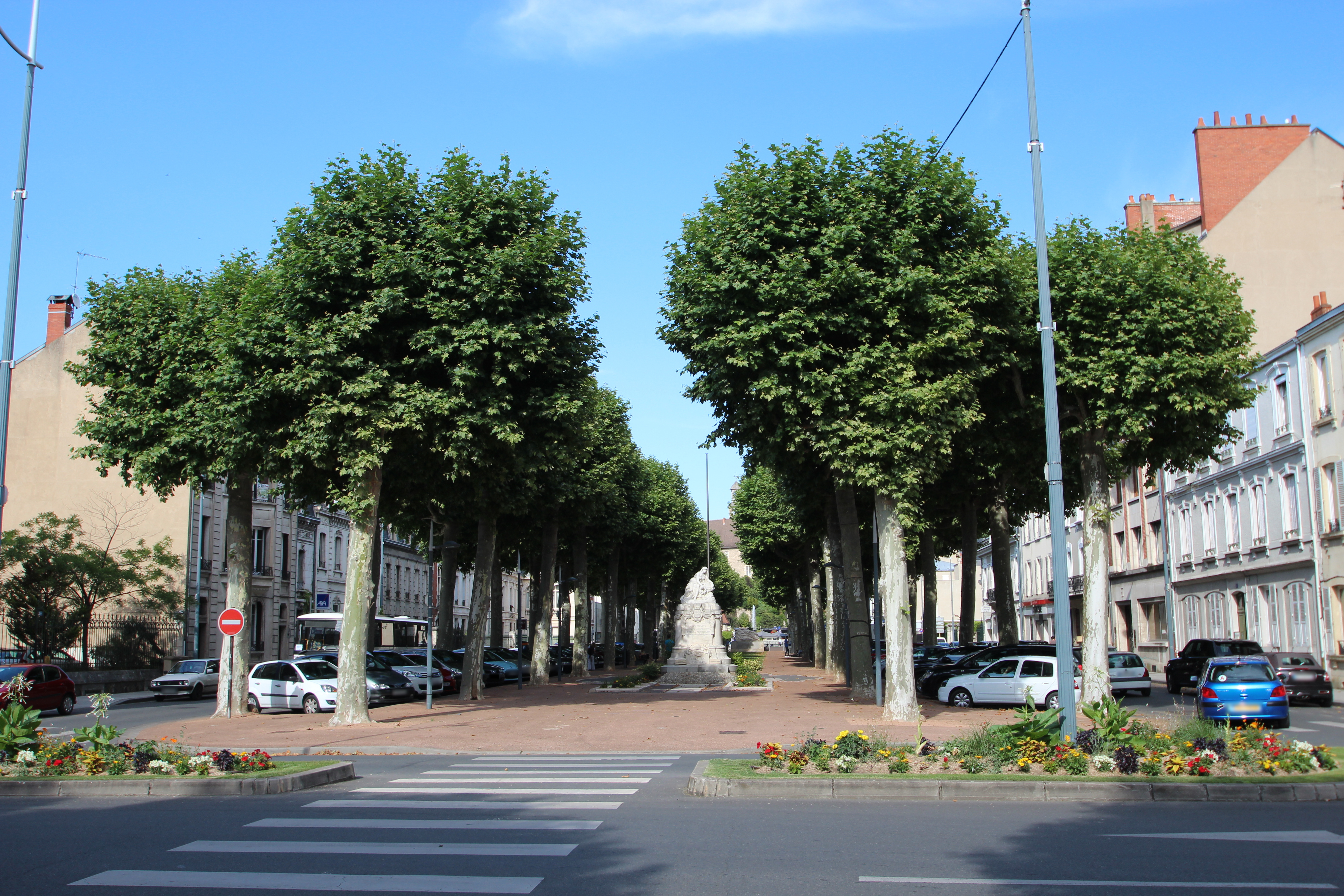 War memorial in Montluçon, France. Object location46° 20′ 20.16″ N, 2° 35′ 58.47″ E